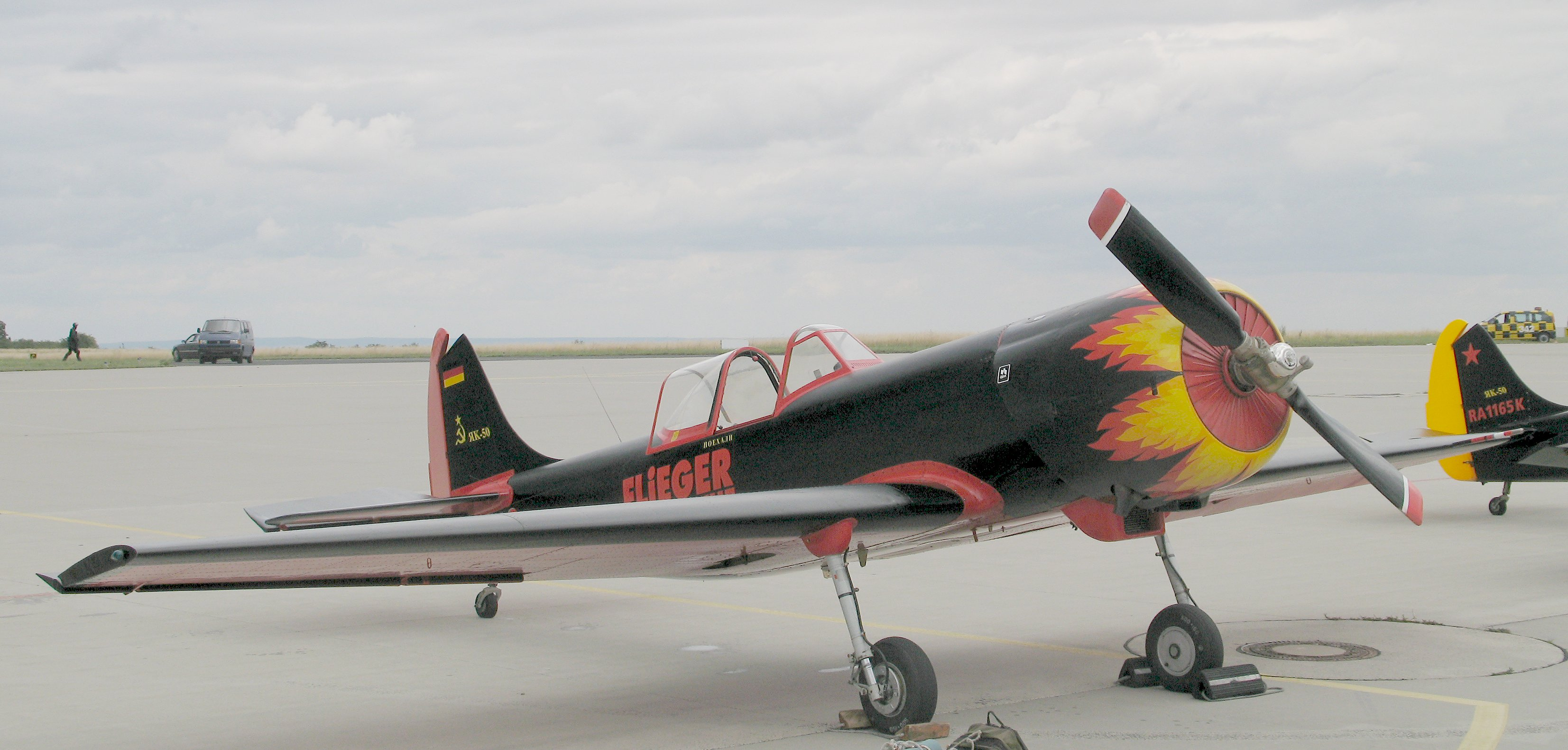 Yakovlev Yak-50 of the german team "Flieger Revue". The russian word "поехали" below the cockpit means "go!" or "let's go!".